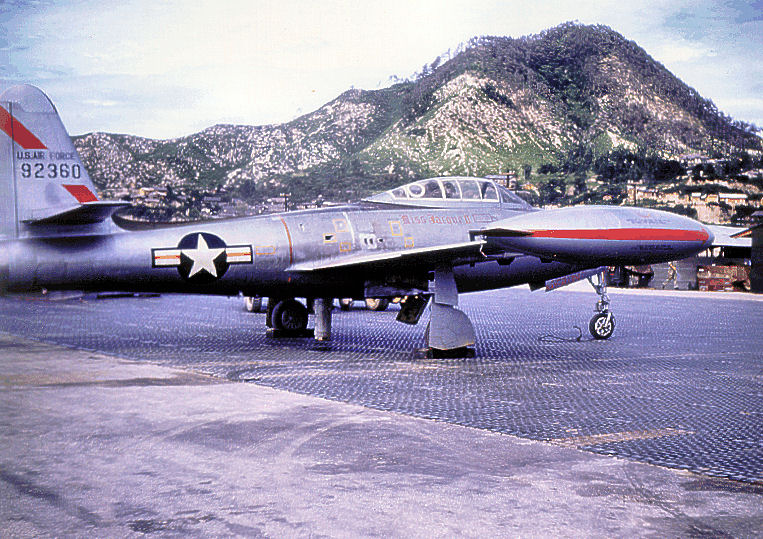 A U.S. Air Force Republic F-84E-15-RE Thunderjet (s/n 49-2360) of the 27th Fighter Escort Group at Taegu, Korea in 1951